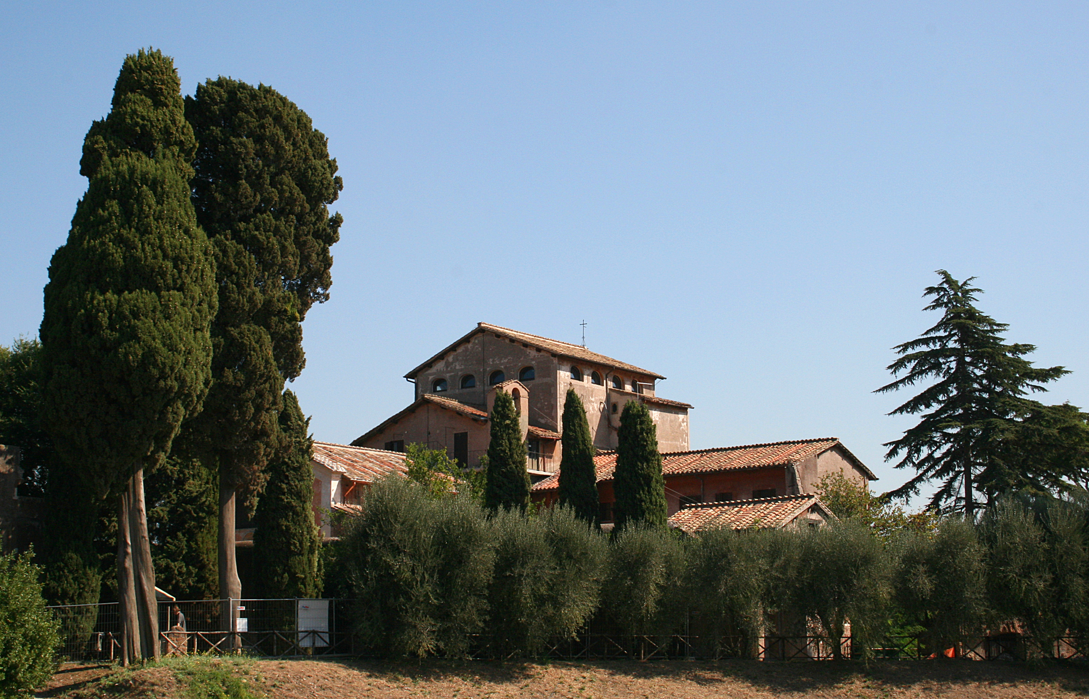 The church of San Bonaventura (1625) al Palatino located on the highest peak of the Palatine Hill. - Spanish Franciscan Convent in Rome.